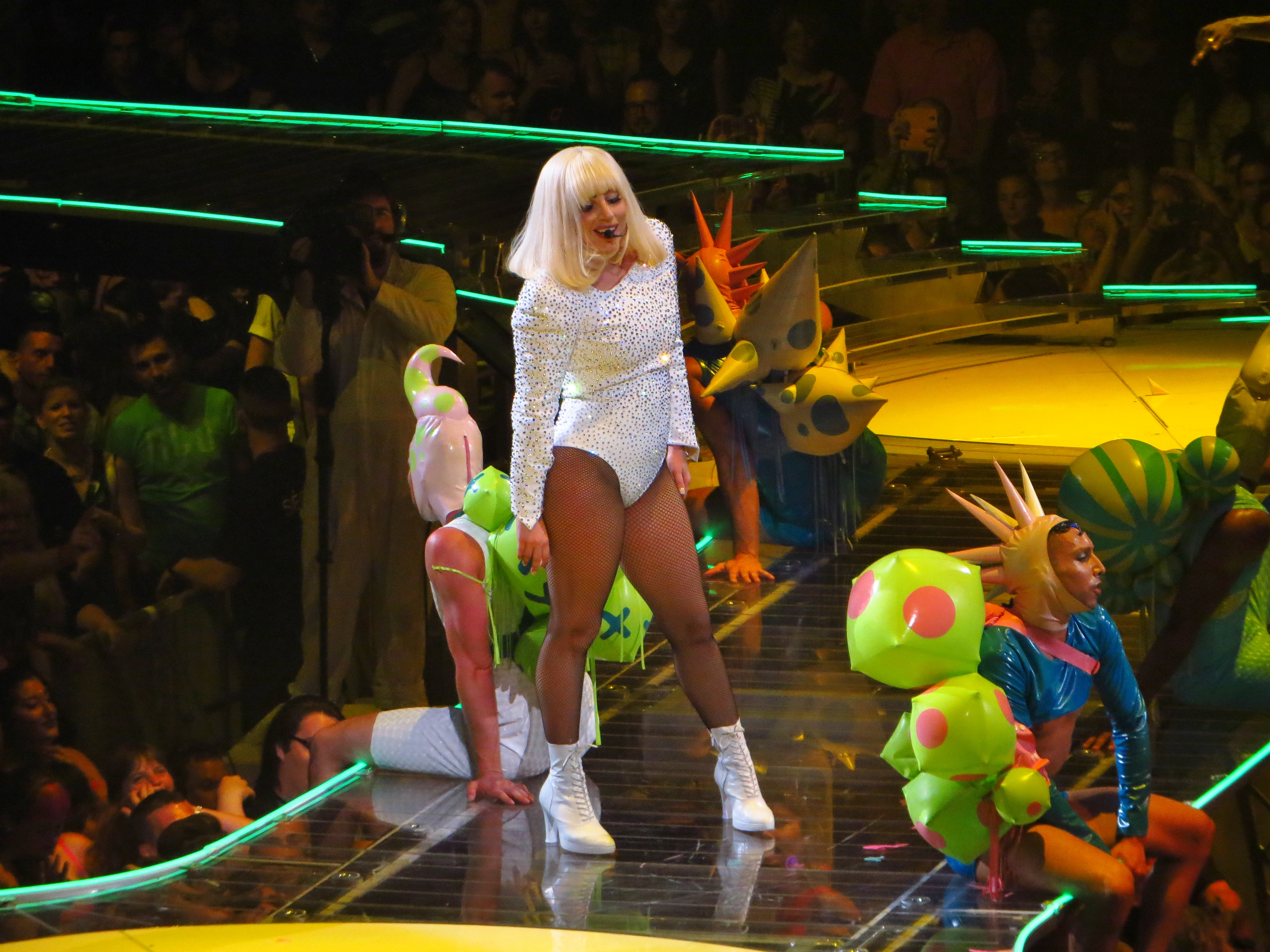 Lady Gaga, ARTPOP Ball Tour, Bell Center, Montréal, 2 July 2014 (38) Gaga performing on ArtRave: The Artpop Ball tour